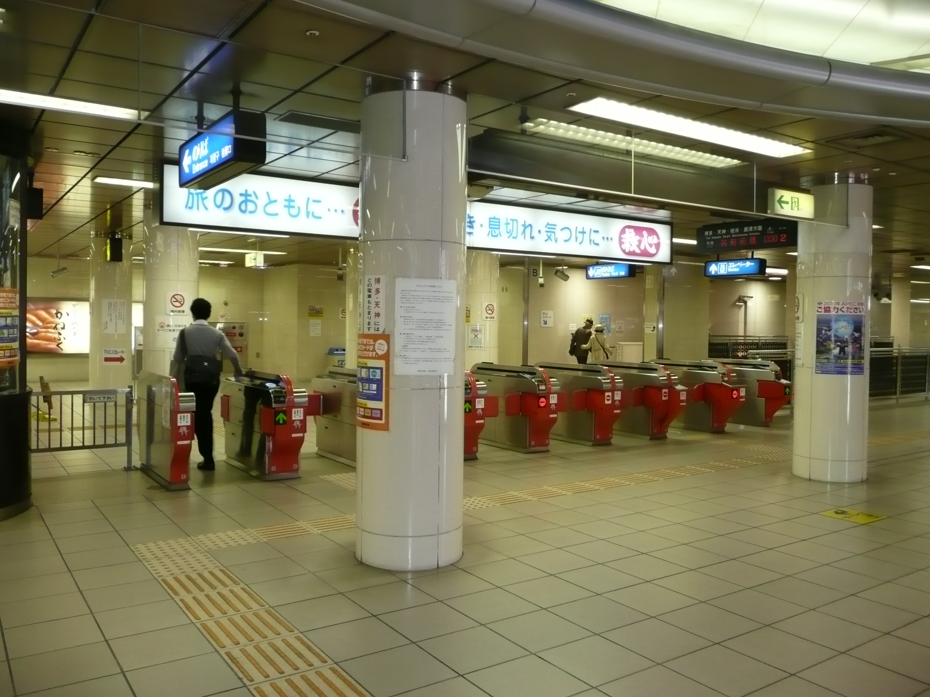 Fukuoka Airport Station ticket gates